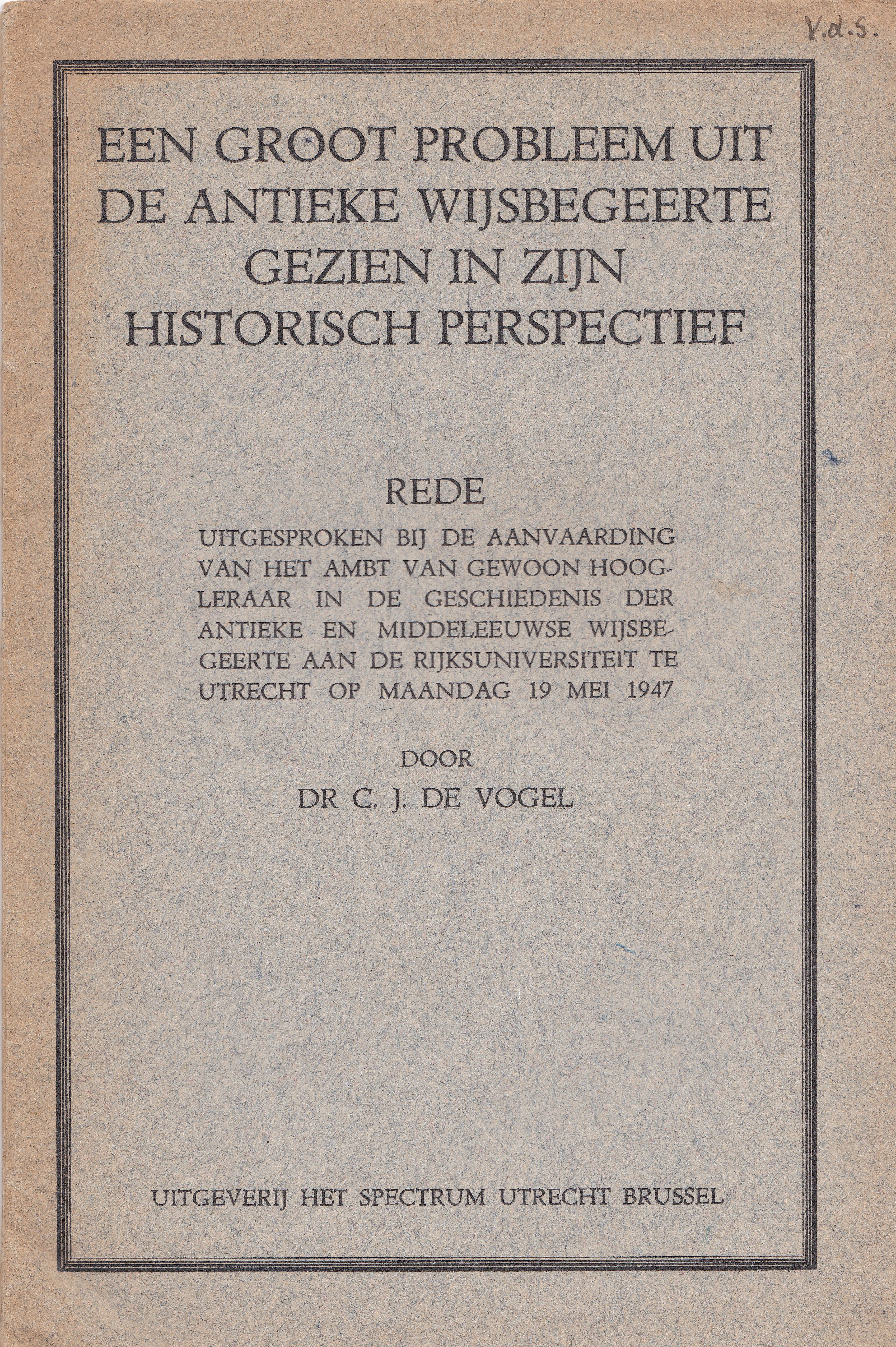 rede bij aanvaarding hoogleraarschap